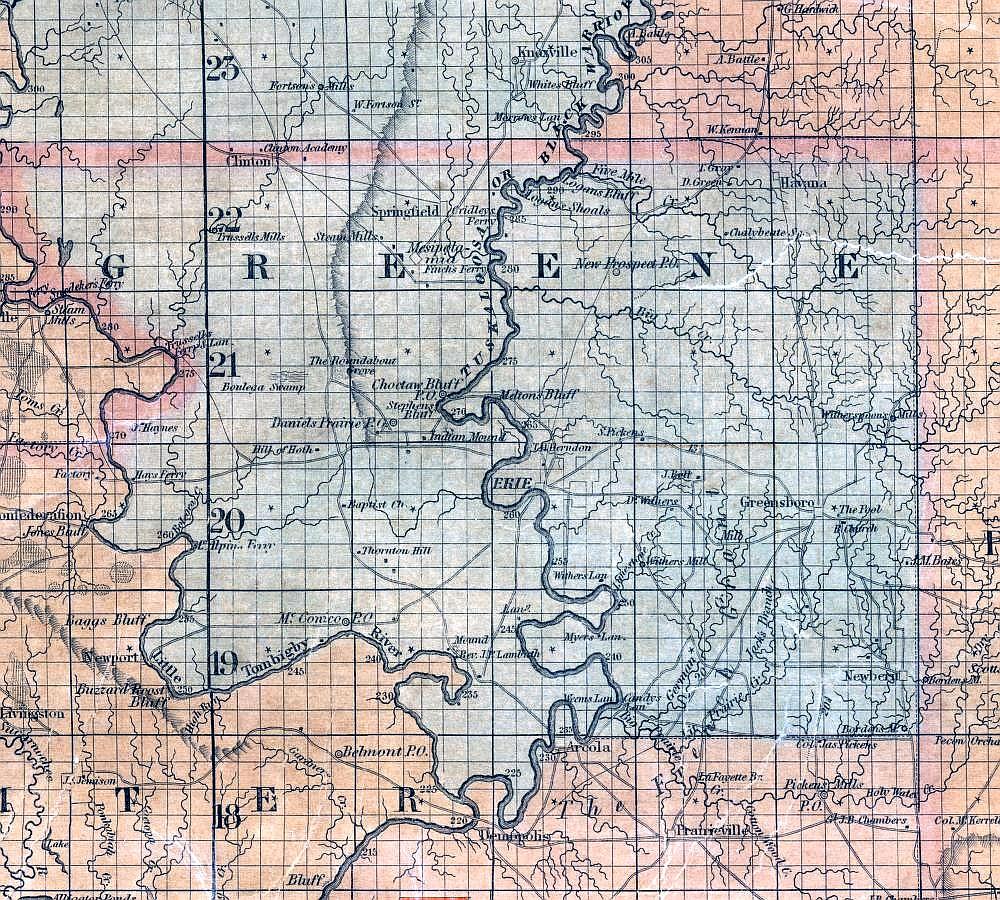 Southern portion of Greene County, Alabama. Cropped from An Accurate Map of the State of Alabama and West Florida.